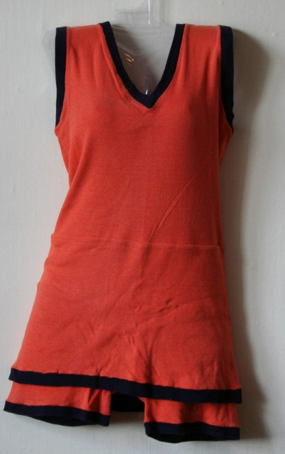 An orange wool jersey ladies' bathing suit, c.1925. From the costume collections of Southend Museums Service.